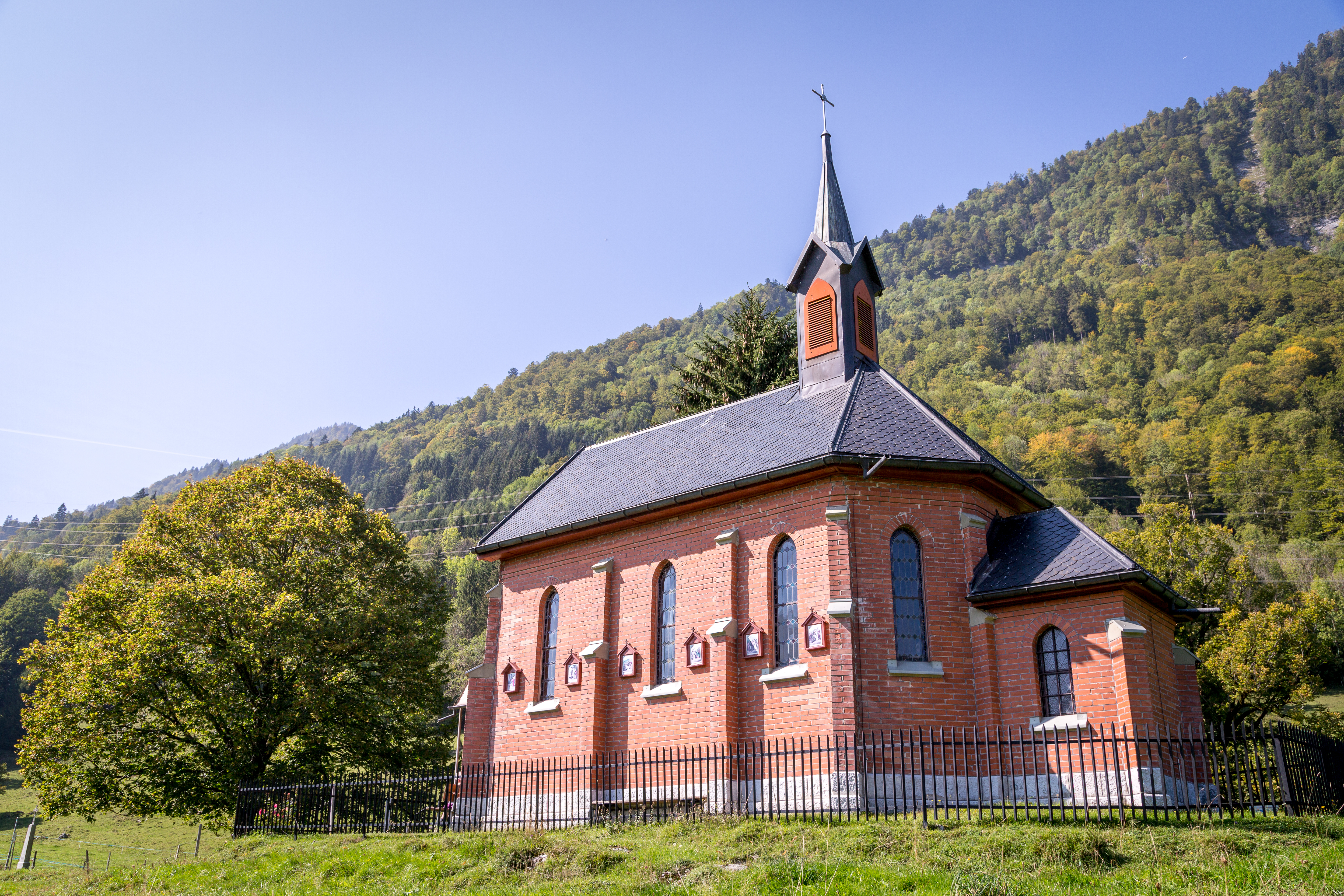 Chapelle Notre-Dame Auxiliatrice aux Combes